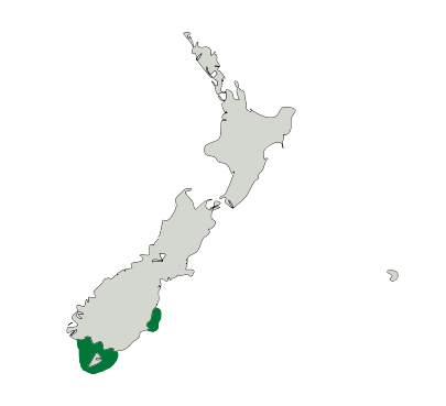 Range of Phalacrocorax chalconotus